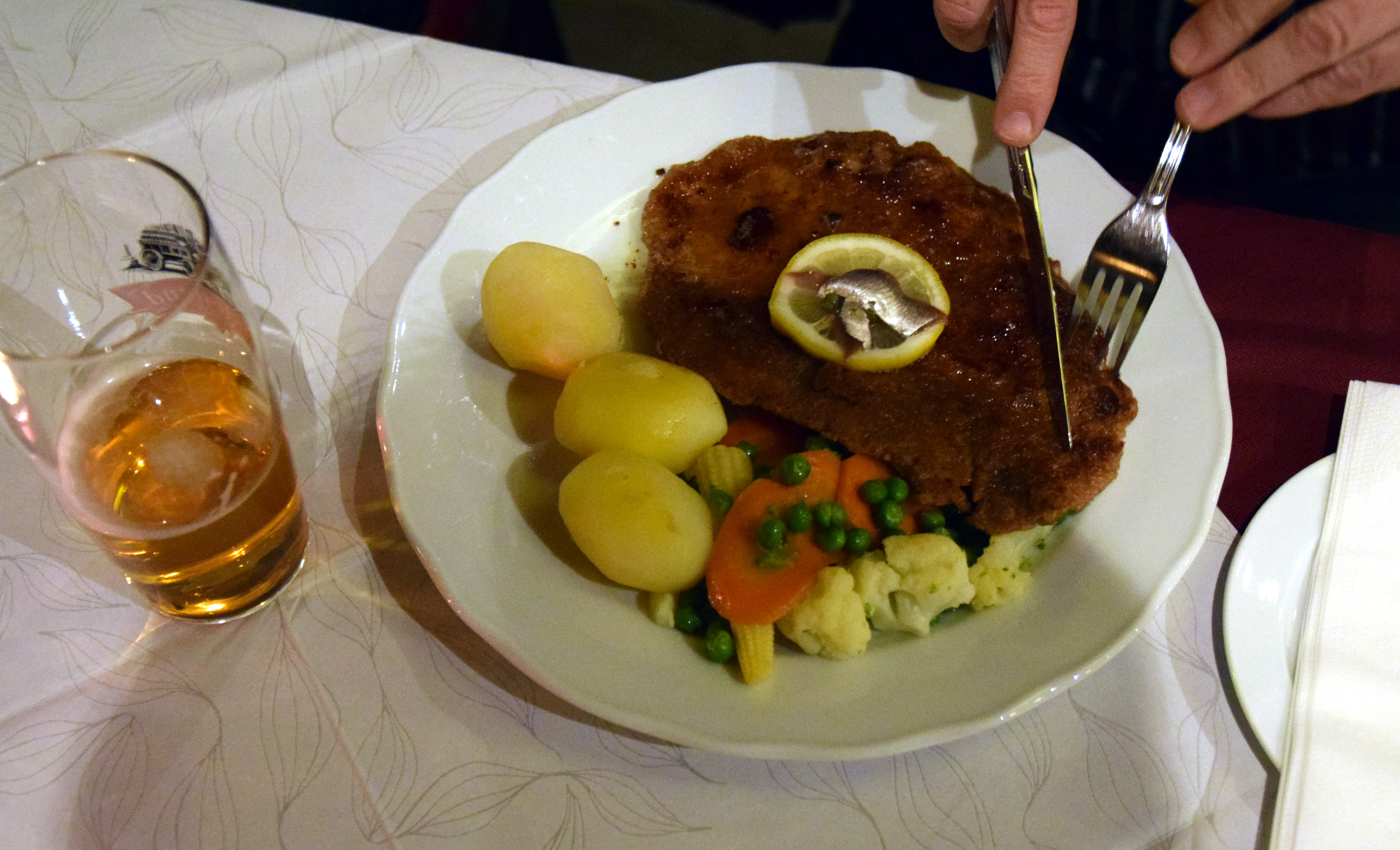 Wiener Schnitzel at Restaurant Schrøder. Oslo. Publishing approved by the restaurant.